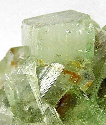 Augelite Locality: Ortega Prospect, Northern Ancash Dept., Peru Size: thumbnail, 3 x 3 x 2.8 cm Augelite A large crystal of augelite, measuring 2 cm across, stands out in this cluster. It is small overall but, for overall quality, absolutely TOPS and one of my favorites in the whole lot here! it is finely crysatllized all around.